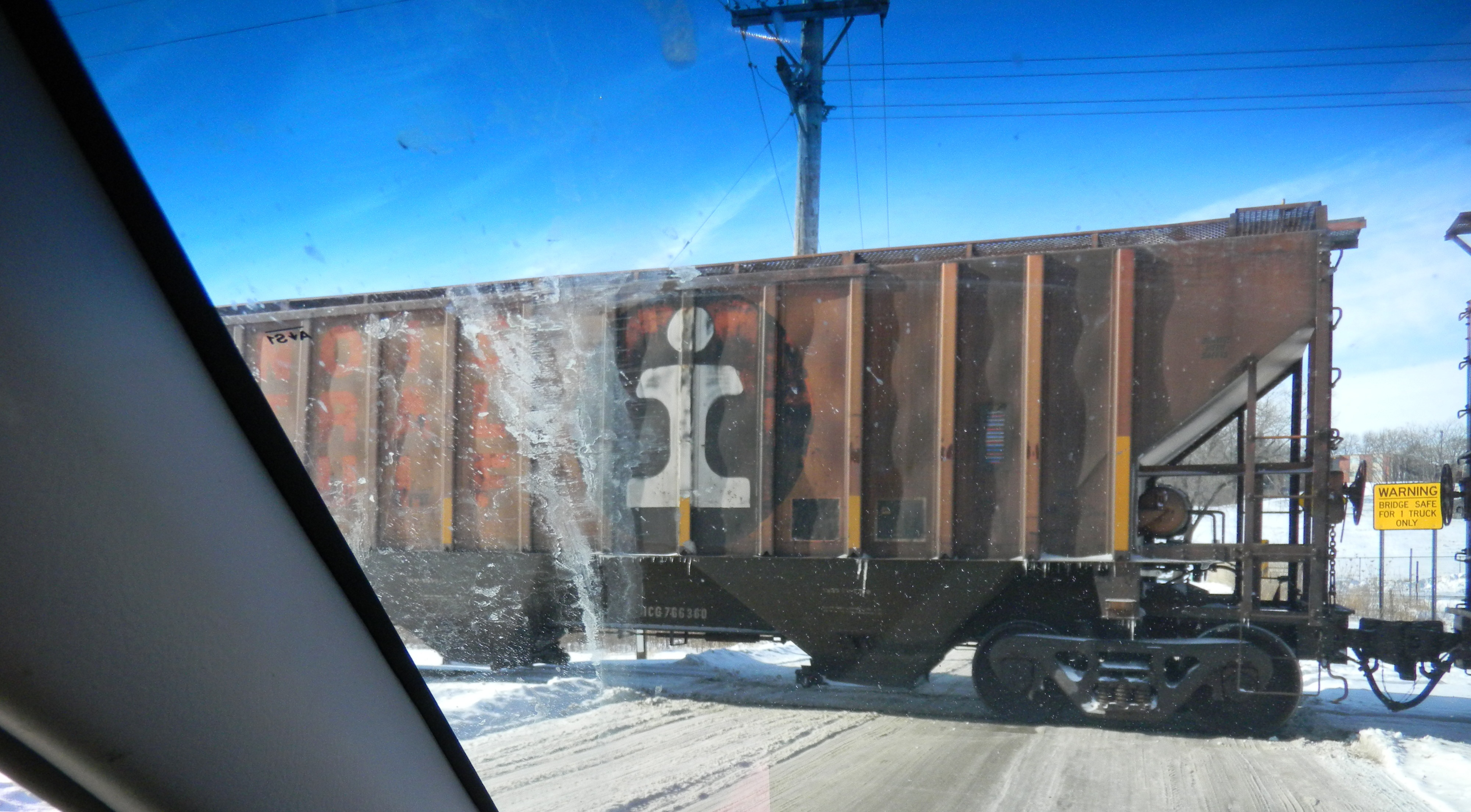 a hopper car in ICG livery with an ACI plate